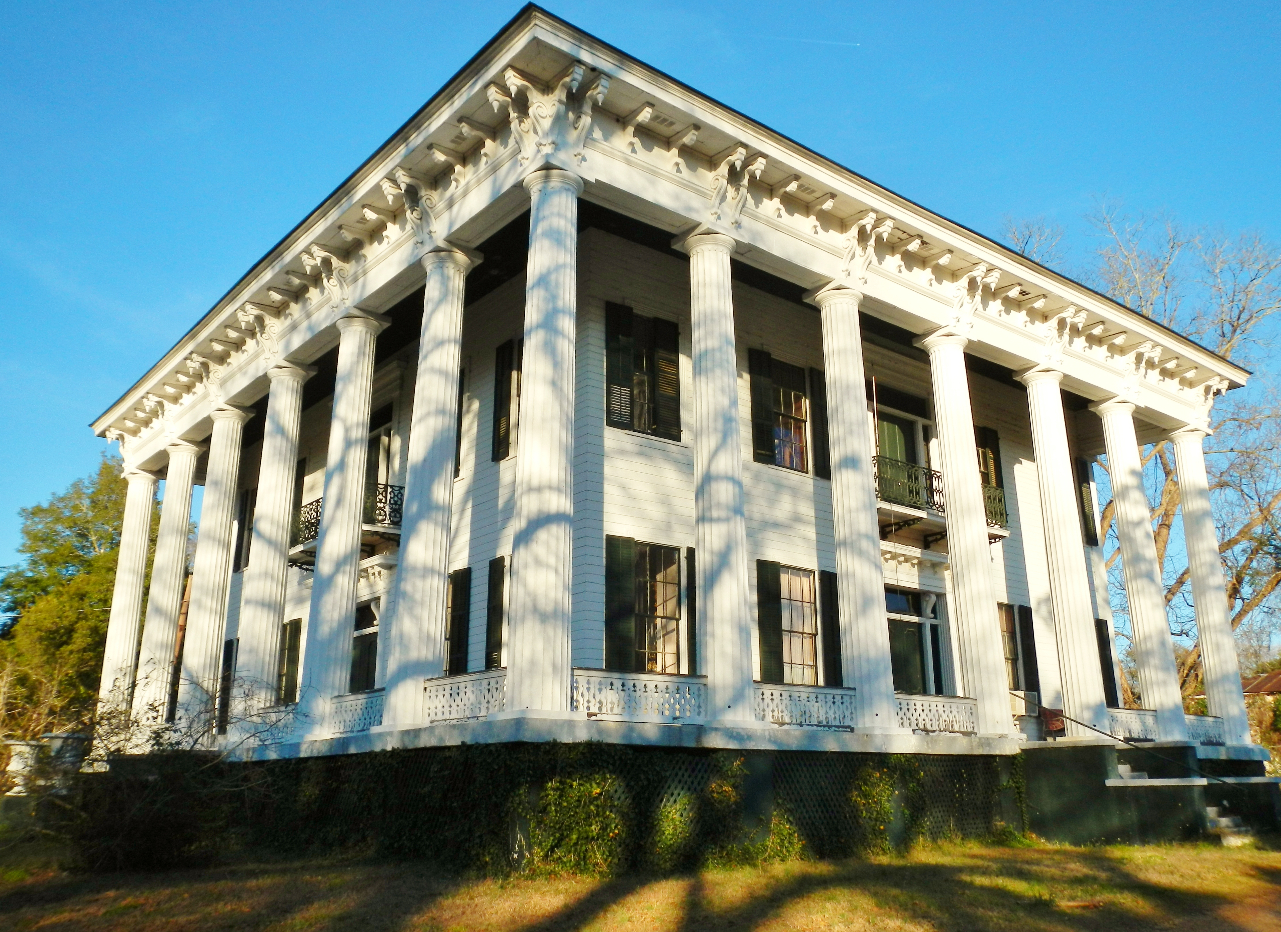 Meadowlawn Plantation House. A Neoclassical house in Lowndesboro, Alabama.